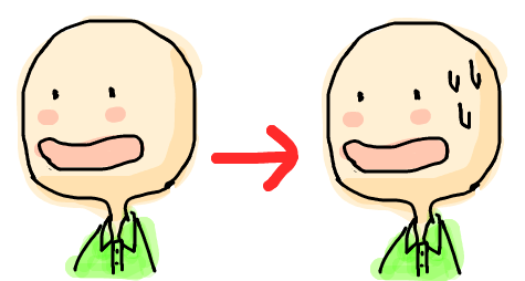 graphic convention of manga, sweating, used to represent feeling anxiety, confusion, embarrassed, and so on.